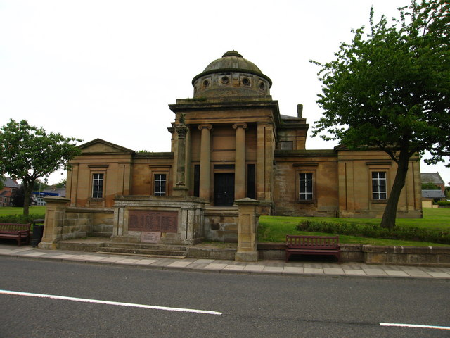 Greenlaw Town Hall. Greenlaw County Hall was built in 1829-31 to house the offices associated with the local government of Berwickshire, Greenlaw being, at that time, the county town of Berwickshire. The dome was designed as the fire-proof room for the safe storage of documents. The building became largely redundant when the management of Berwickshire was transferred to Duns in 1903. It was converted into a Community Centre in 1960, a swimming pool in 1973 and abandoned in the 1980s. It is now on the Scottish Buildings at Risk Register.